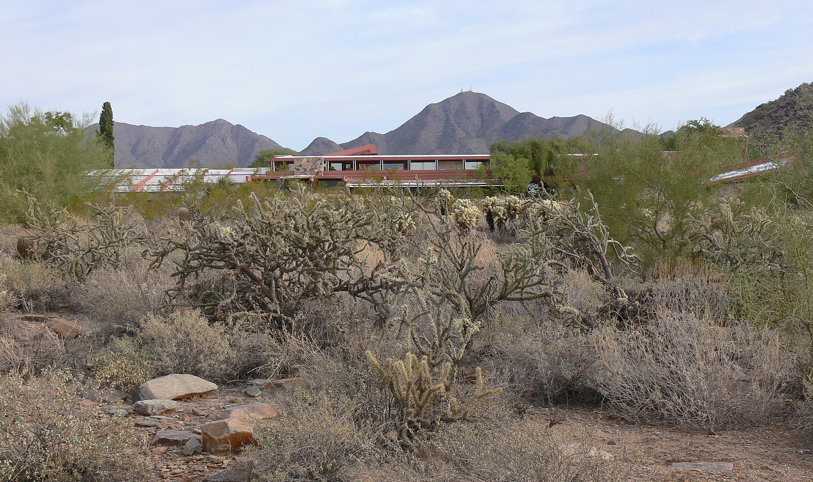 The image was personally taken by me in December 2006. Wars 12:31, 19 December 2006 (UTC)